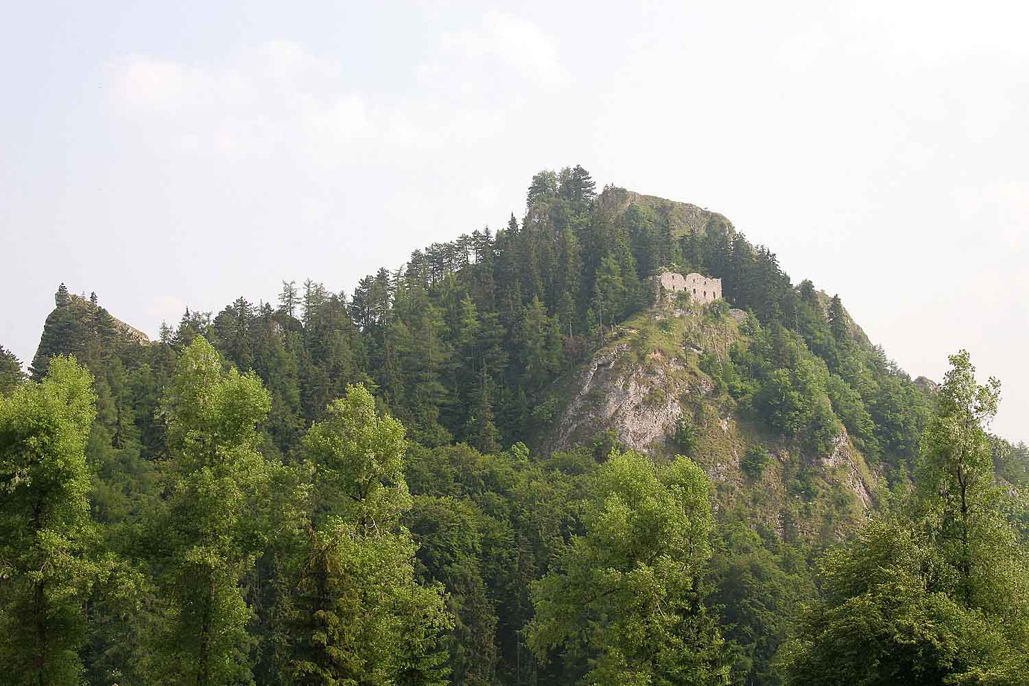 The Castle Vršatec, District Ilava, Biele Karpaty autor:Prazak